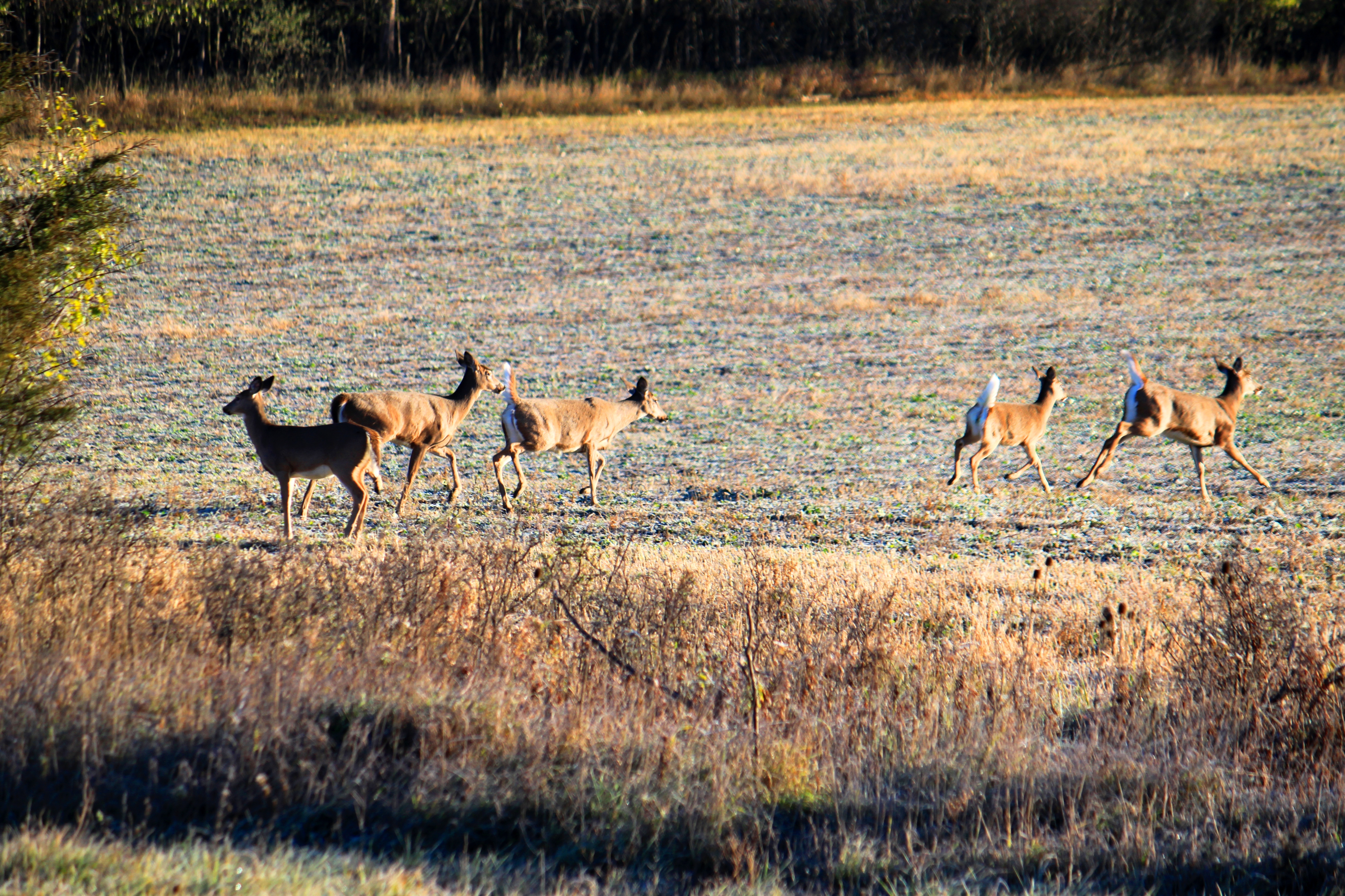 Quintet of White-tailed Deer in a Field, Joy Road & Maple Road, Webster Township, Michigan